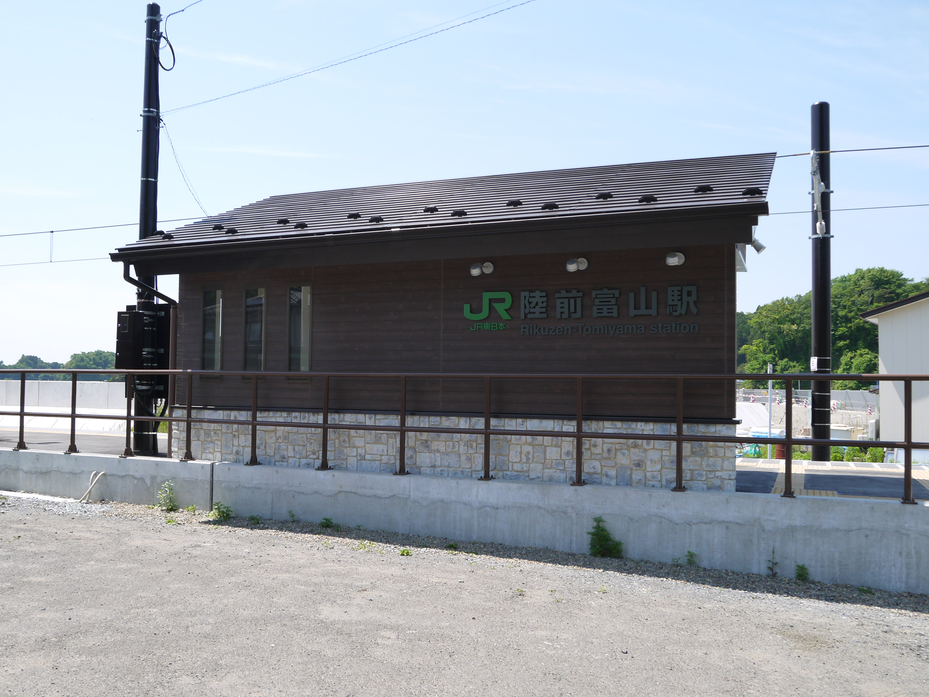 Rikuzen-Tomiyama Station in Miyagi Prefecture, Japan